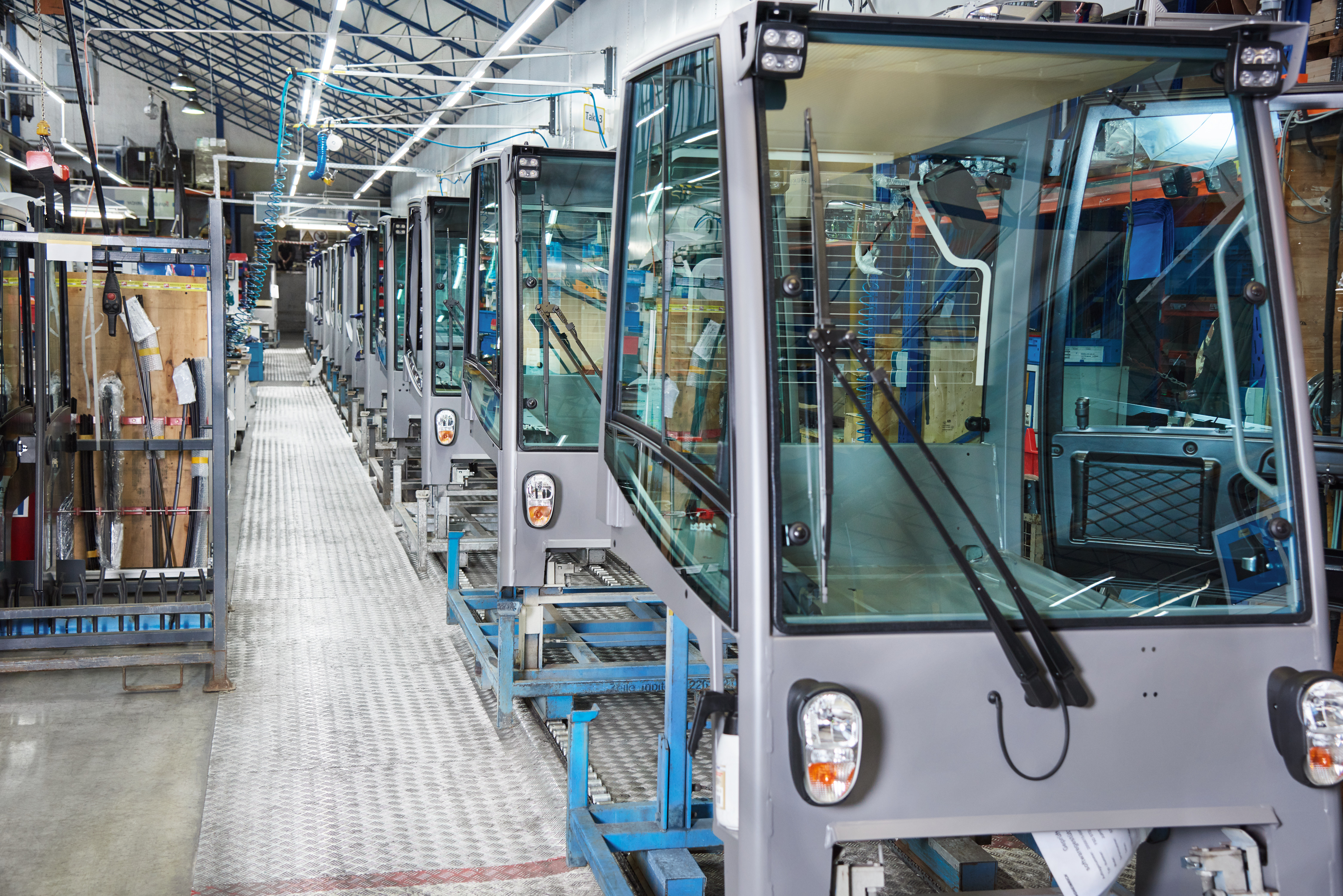 Fritzmeier Group